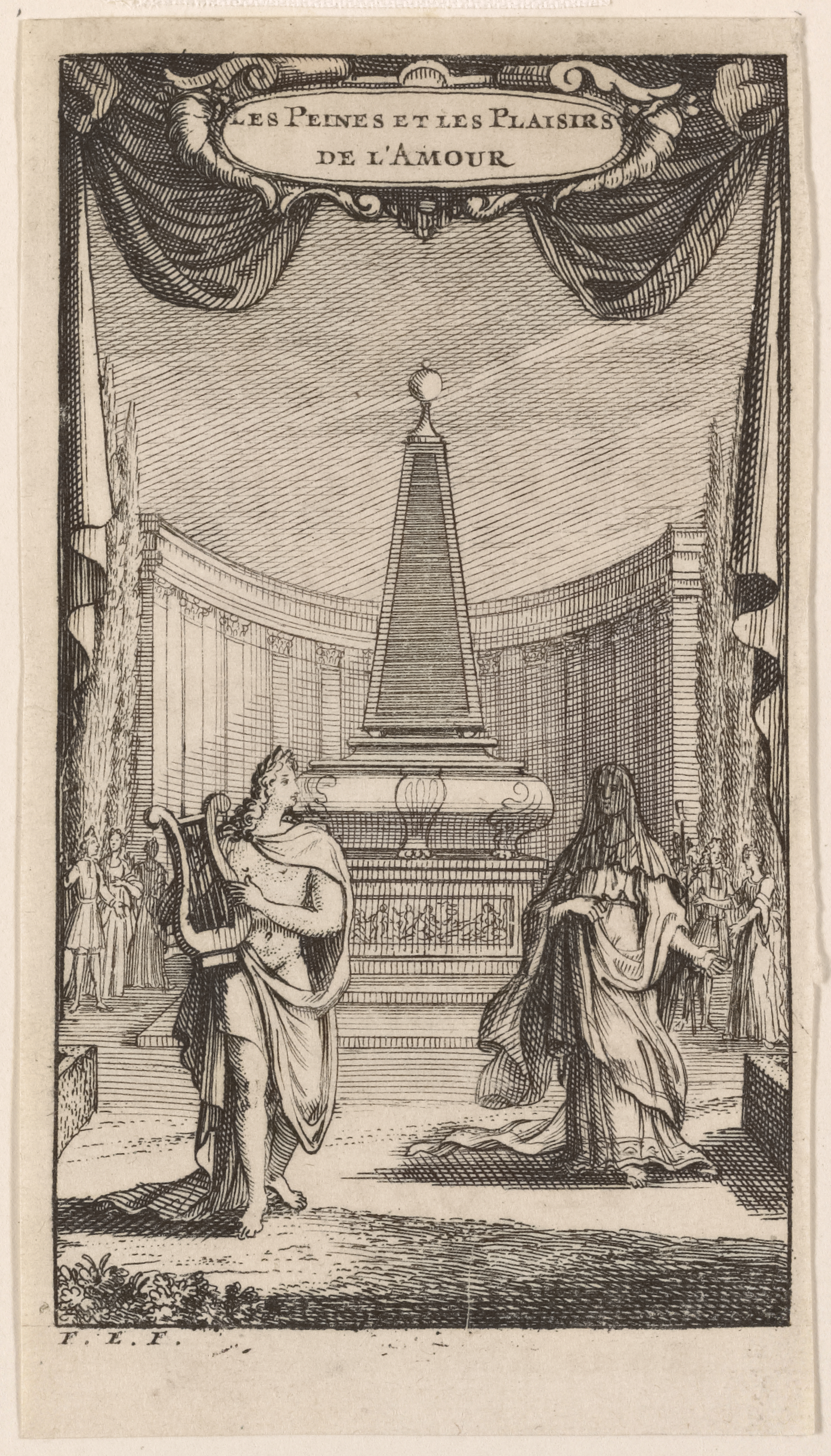 A scene from Cambert's pastorale Les peines et les plaisirs de l'amour, premiered in Paris, November, 1671. A semi-circular wall, trees and people in background; an obelisk on a pedestal at center; Apollo holding a lyre and a veiled woman in foreground.